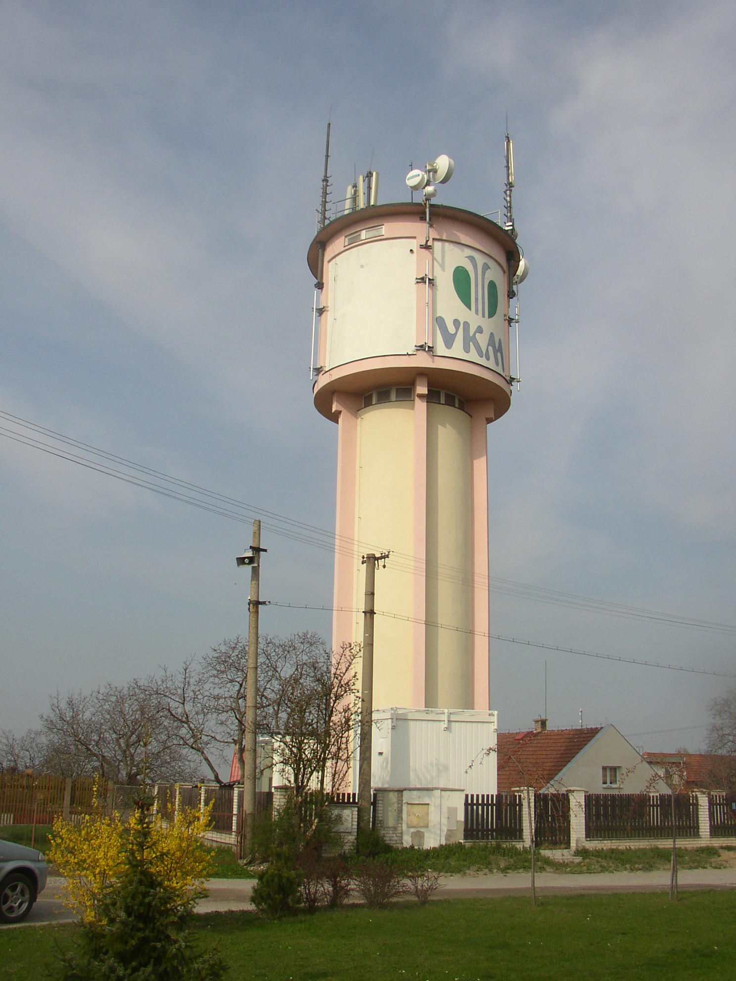 Cvrčovice, Kladno District, Czech Republic. Water tower from 1932-33 in centre of the village is its most distinctive landmark.